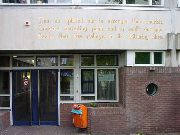 Wallpoem in de city of Leiden in the Netherlands.